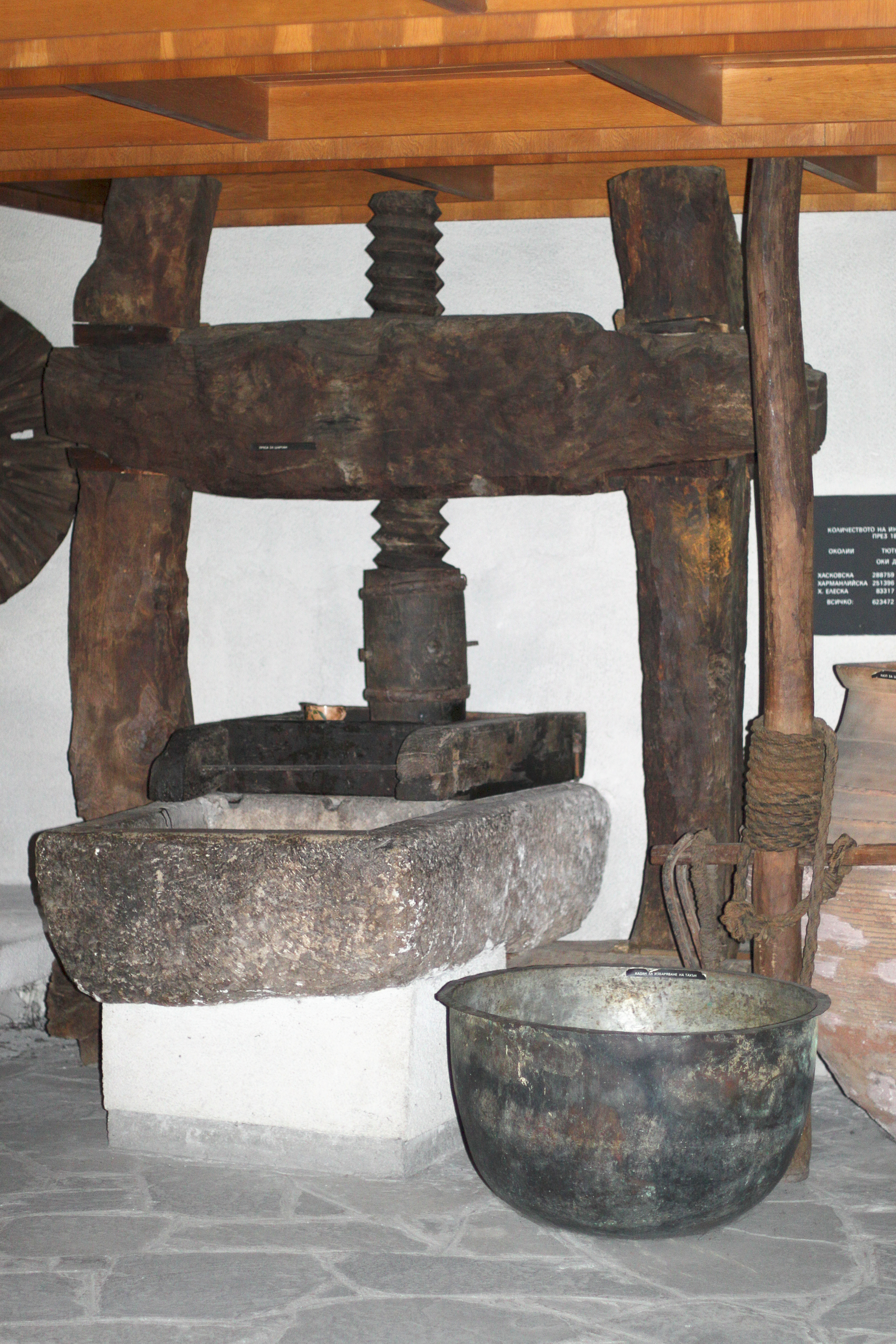 Haskovo Historic Museum, Haskovo, Bulgaria